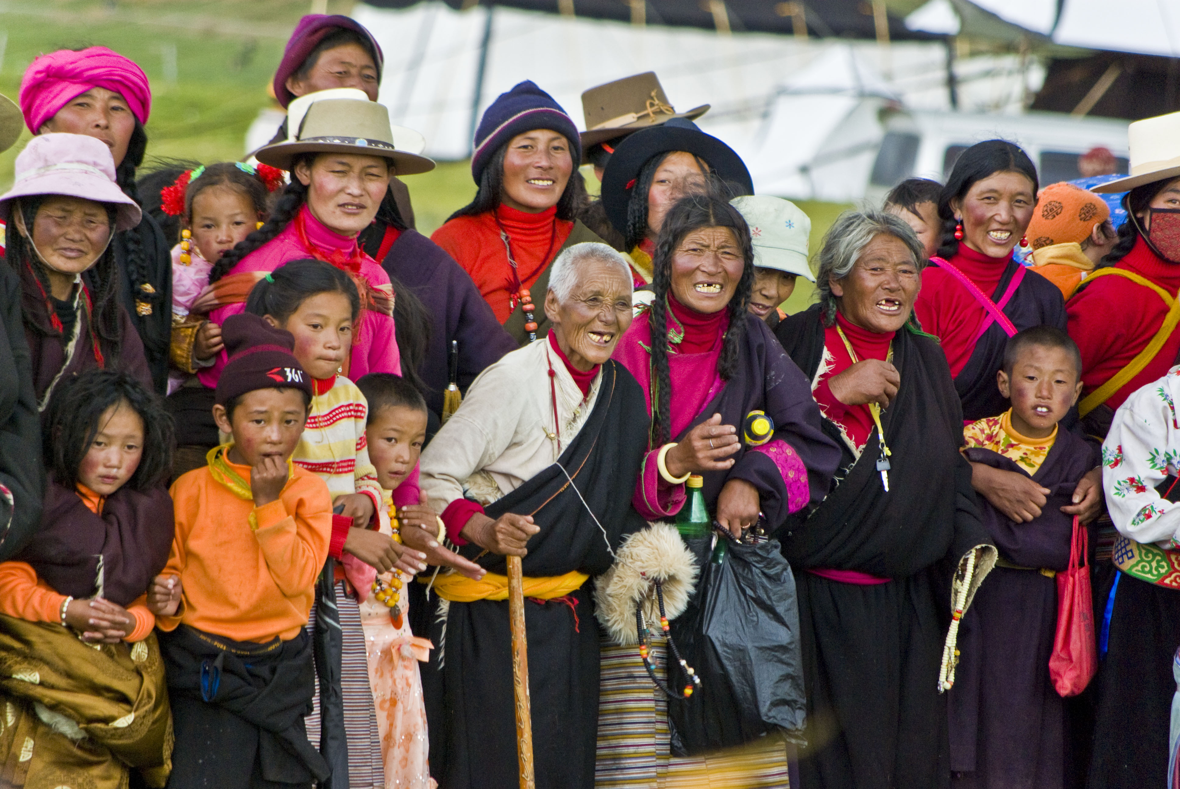 In the Kham (in a horse festival)